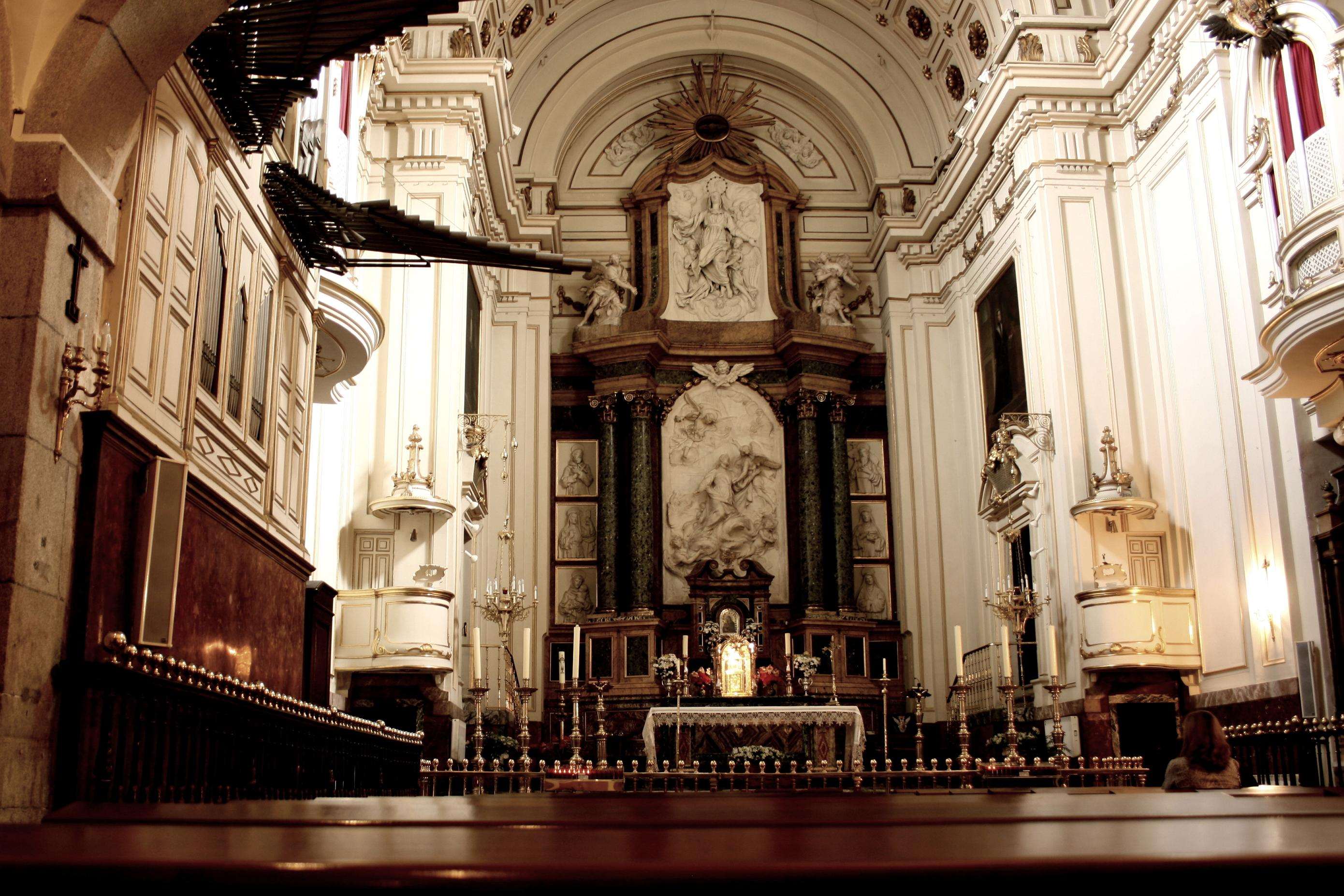 Church's interior of Monasterio de las Descalzas Reales, a convent at Plaza de las Descalzas (square) in Madrid (Spain).